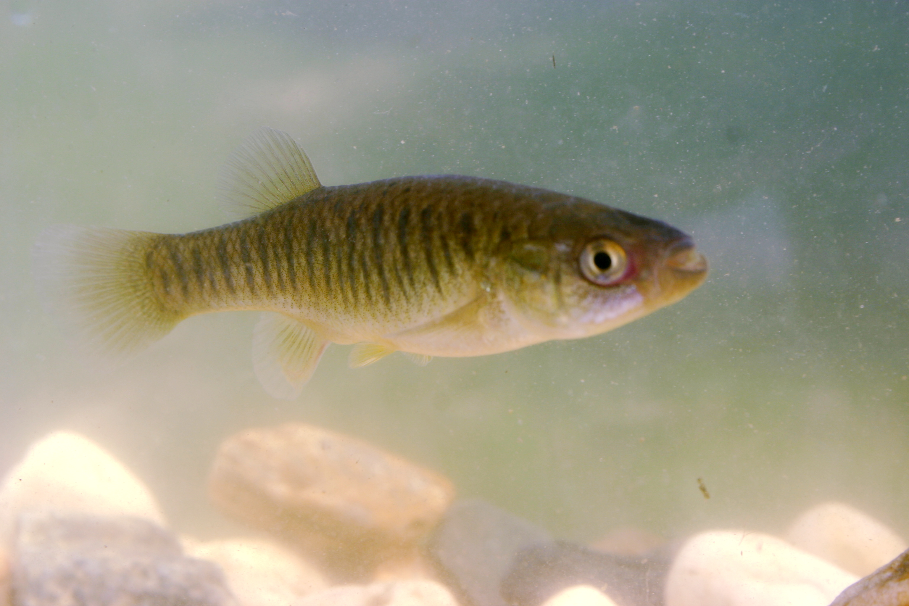 Fundulus heteroclitus mummichog, taken at St. Michaels, Chesapeake Bay 2006 Brian Gratwicke